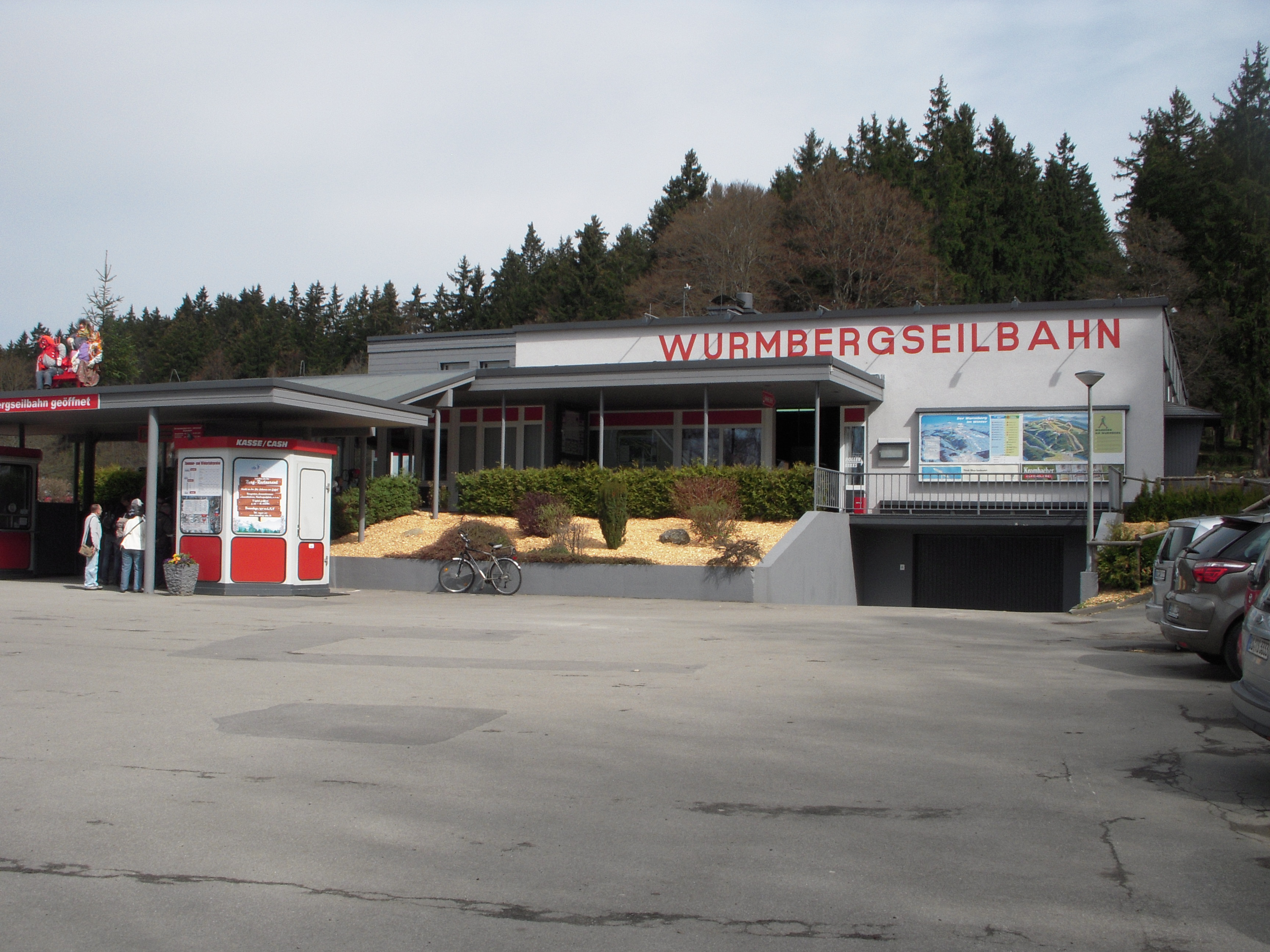 The lower station on the Wurmberg Seilbahn in Braunlage, Harz, Germany. April 28, 2012.